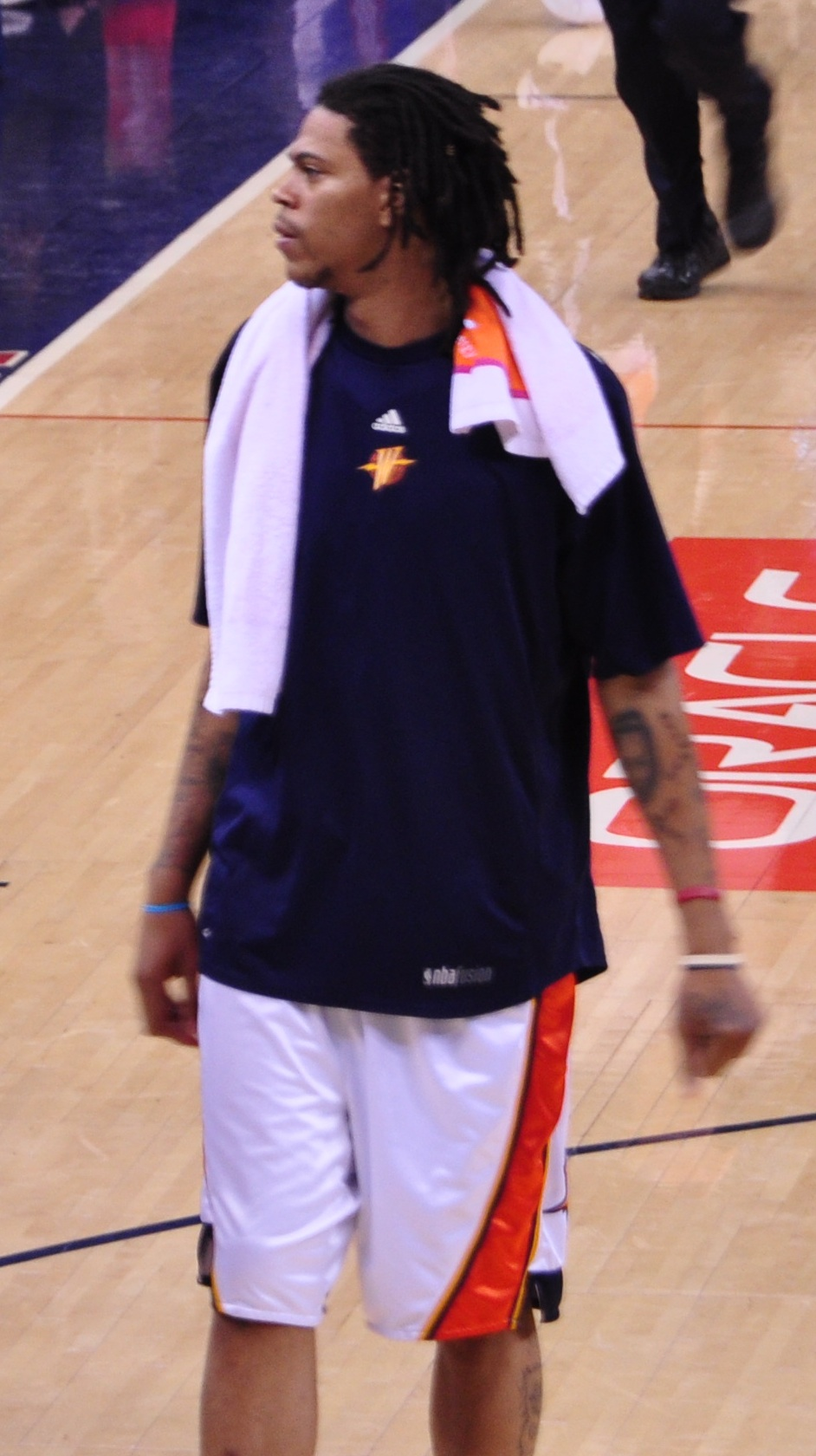 Marco Belinelli (far left), Brandan Wright, Anthony Randolph (4), Jermareo Davidson